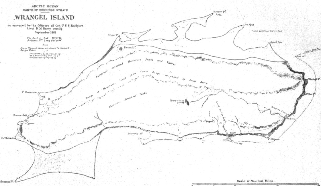 Mape of Wangell Island